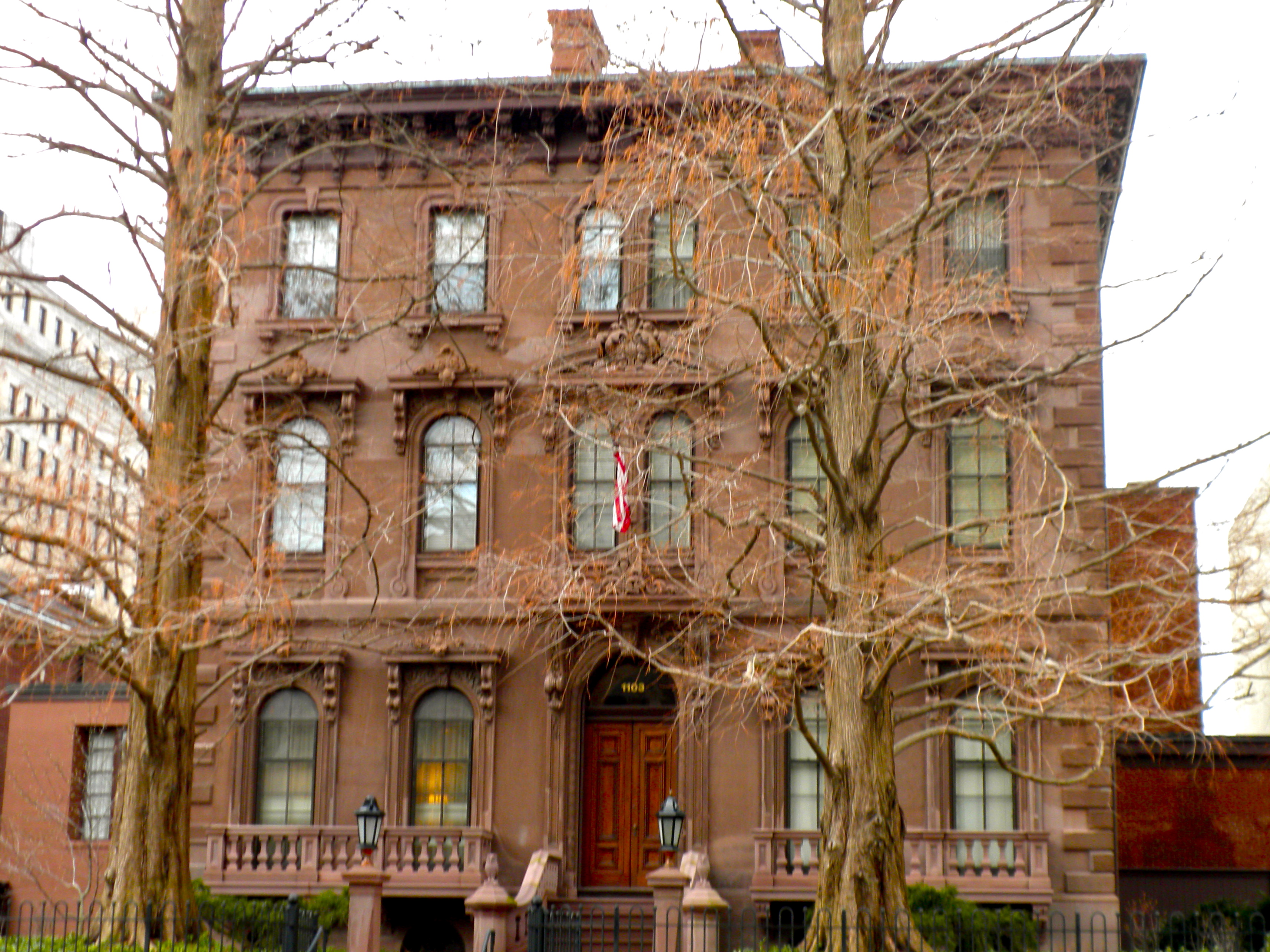 Wilmington Club, on NRHP since April 19, 2006 at 1103 N. Market St., Wilmington, Delaware